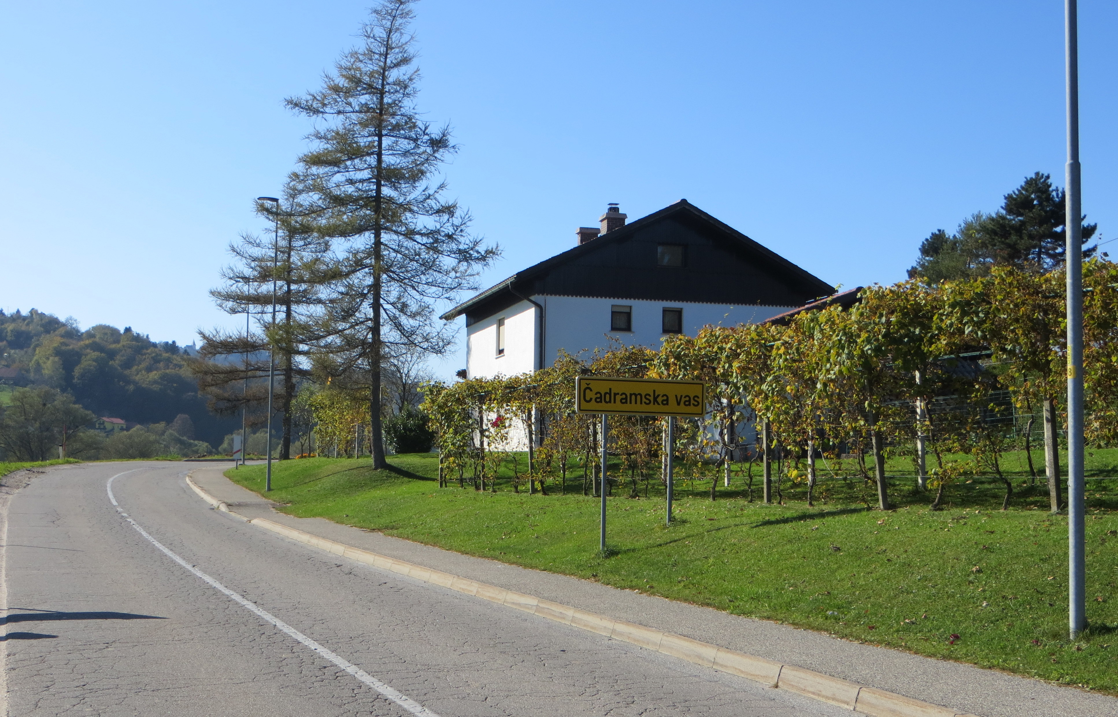 Čadramska Vas, Municipality of Poljčane, Slovenia